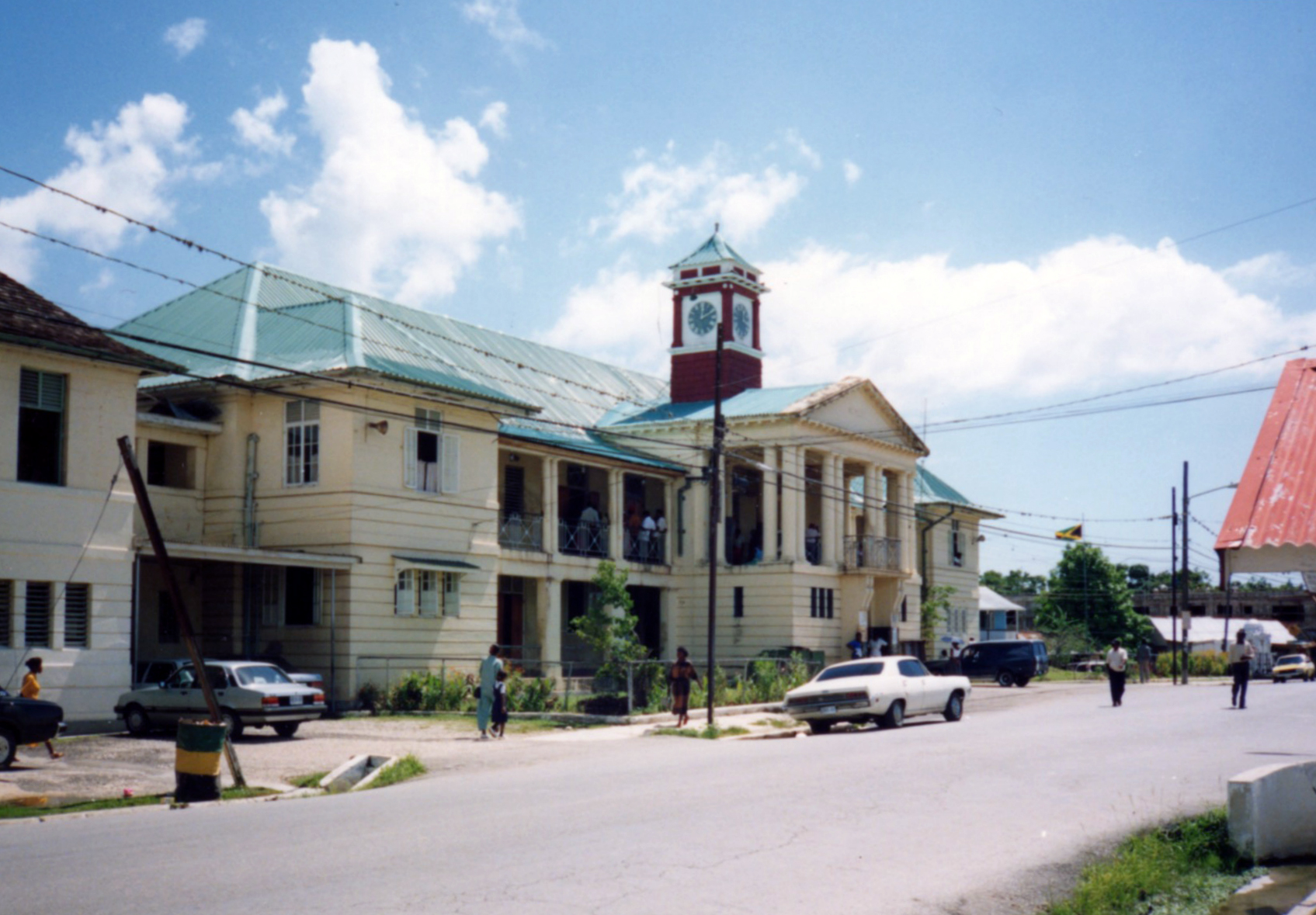 The Westmoreland parish court house, in Great George Street, Savanna-la-mar (Jamaica) in October 1990.